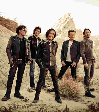 Publicity photo of American Rock Band Journey